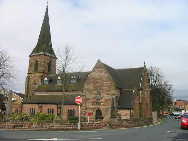 Penkhull Church St. Thomas's church, Penkhull, Stoke on Trent built in 1842 and designed by George Gilbert Scott